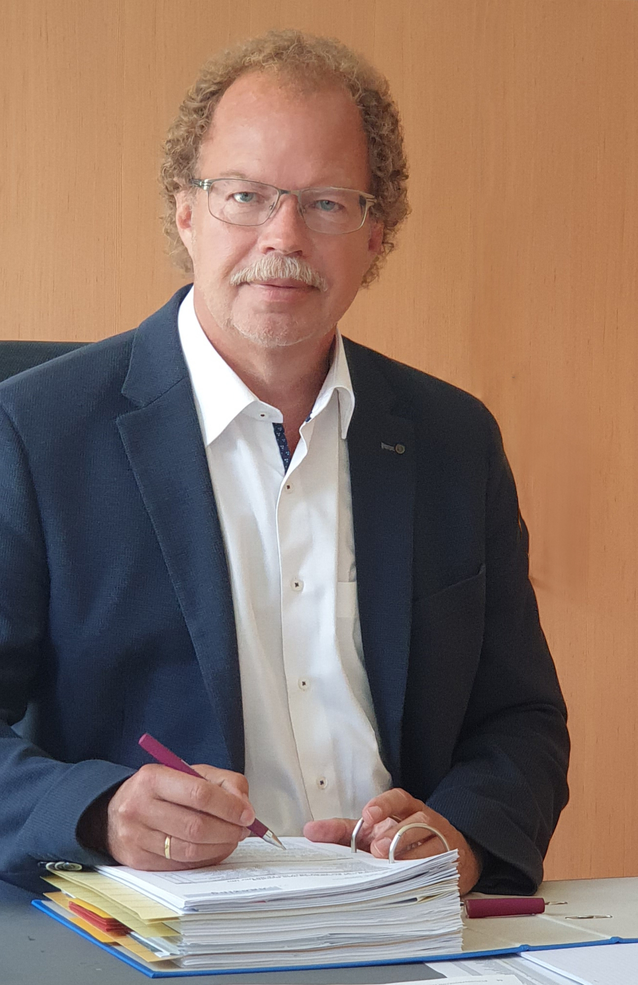 Florian Kasseroler (born March 22, 1960) is an Austrian politician (FPÖ) from the state of Vorarlberg. From 1999 to 2004, Kasseroler represented the Vorarlberg Freedom Party (FPOe) for one legislative term as a member of the Vorarlberg Parliament. Since 2003 he is full-time mayor of the market town Nenzing.